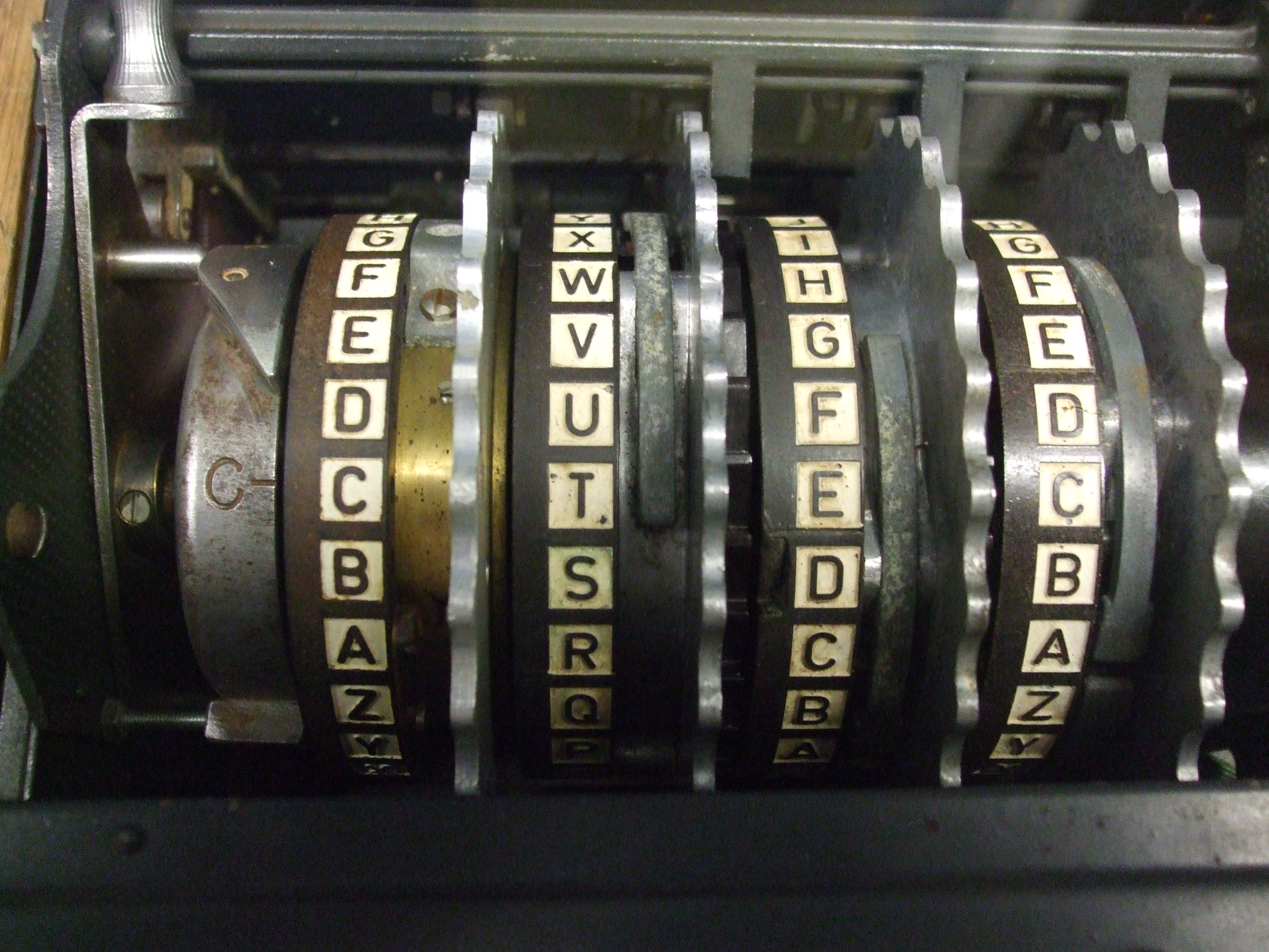 Wheel set of Enigma-M4 with thin UKW C